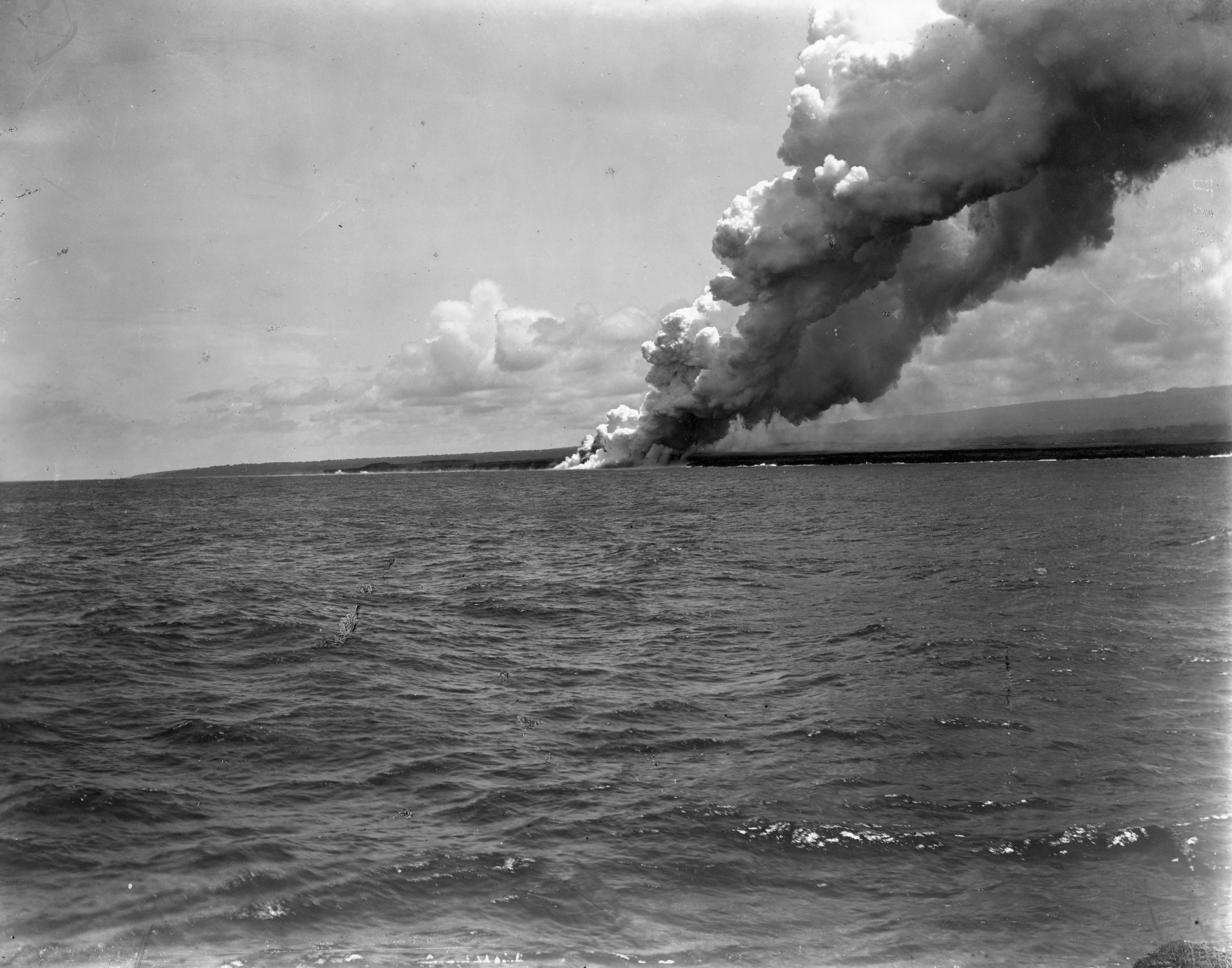 Mt Matavanu volcanic eruption, Savai'i island in Samoa, 1905. Gagana Samoa: Matavanu, mauga afi i Savai'i, 1905.